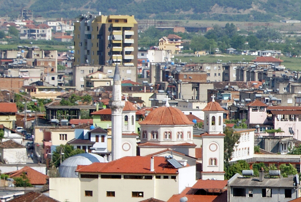 Lead Mosque and Orthodox Cathedral in Berat, Albania.